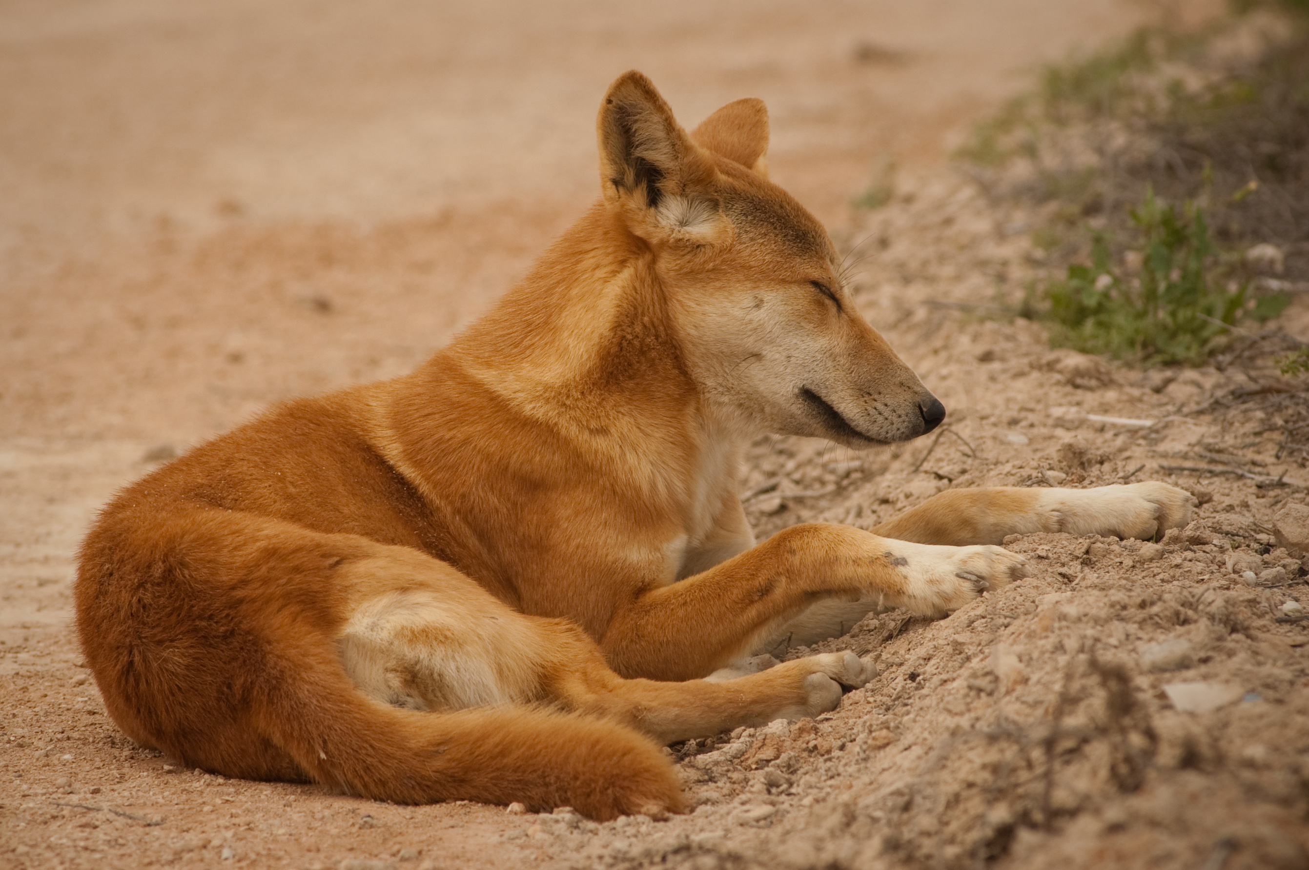 Female dingo on the Australian Nullarbor in South Australia.